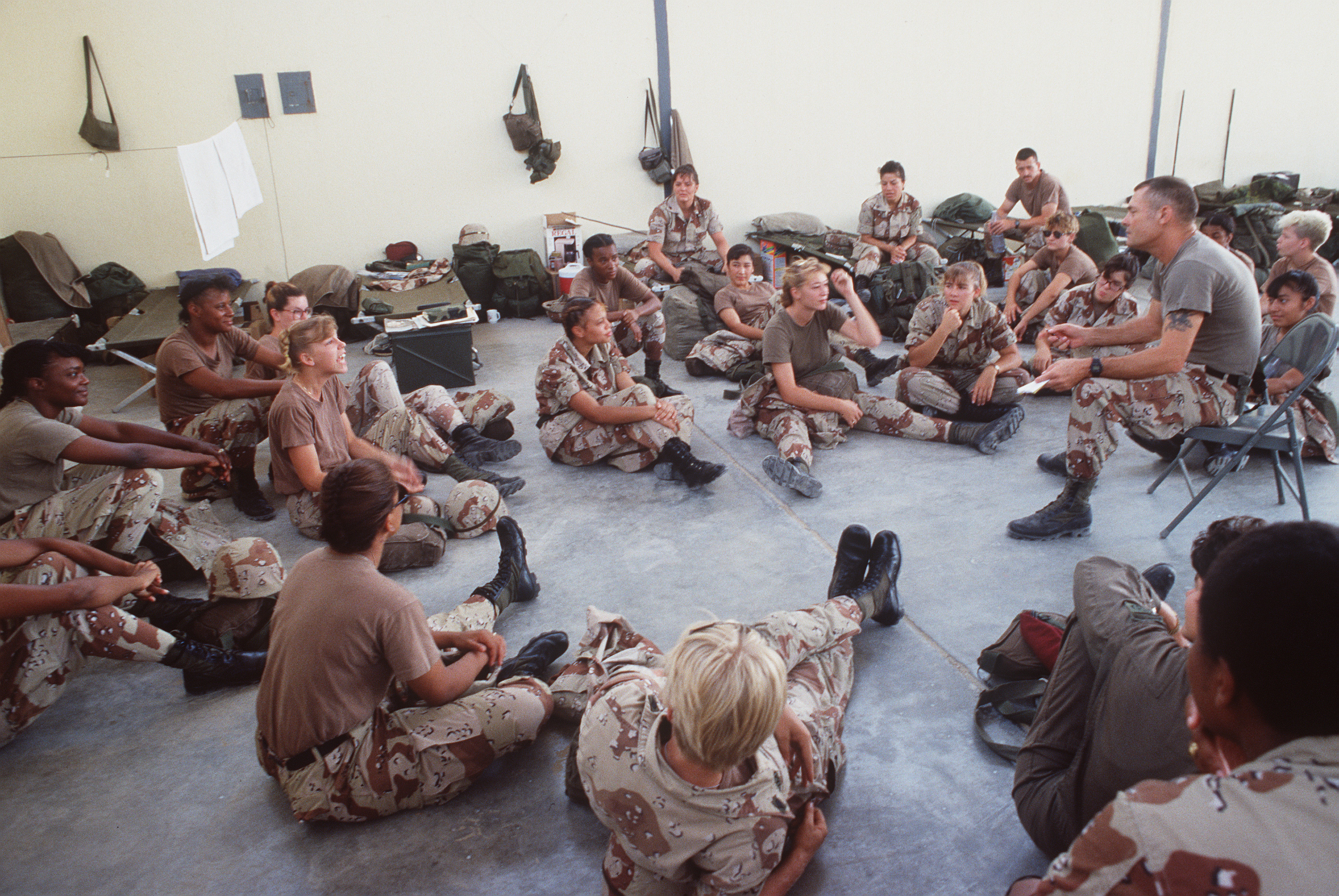 Female servicemembers at war.